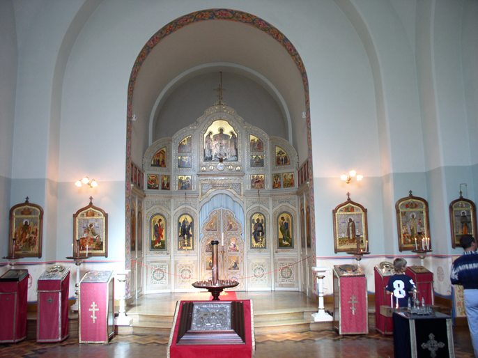 Interior of Christ the Redeemer Russian Orthodox Church in Sanremo, Italy